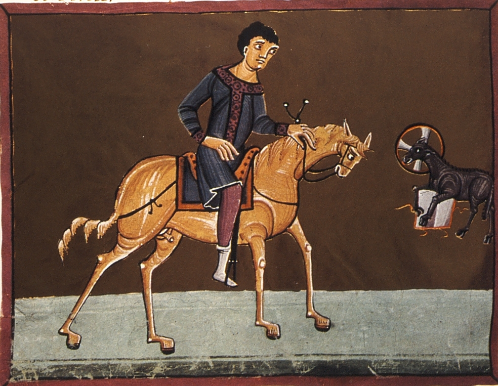 The fourth horseman